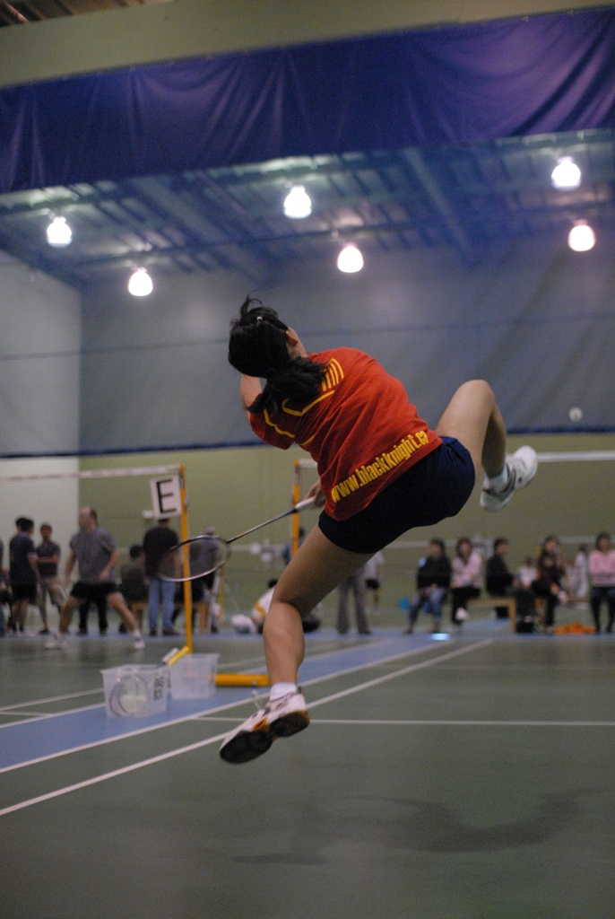 Photograph taken by Kwun Han and given to Francesca Setiadi (pictured in photograph). I've received permission from Francesca Setiadi to reformat and post this photograph.